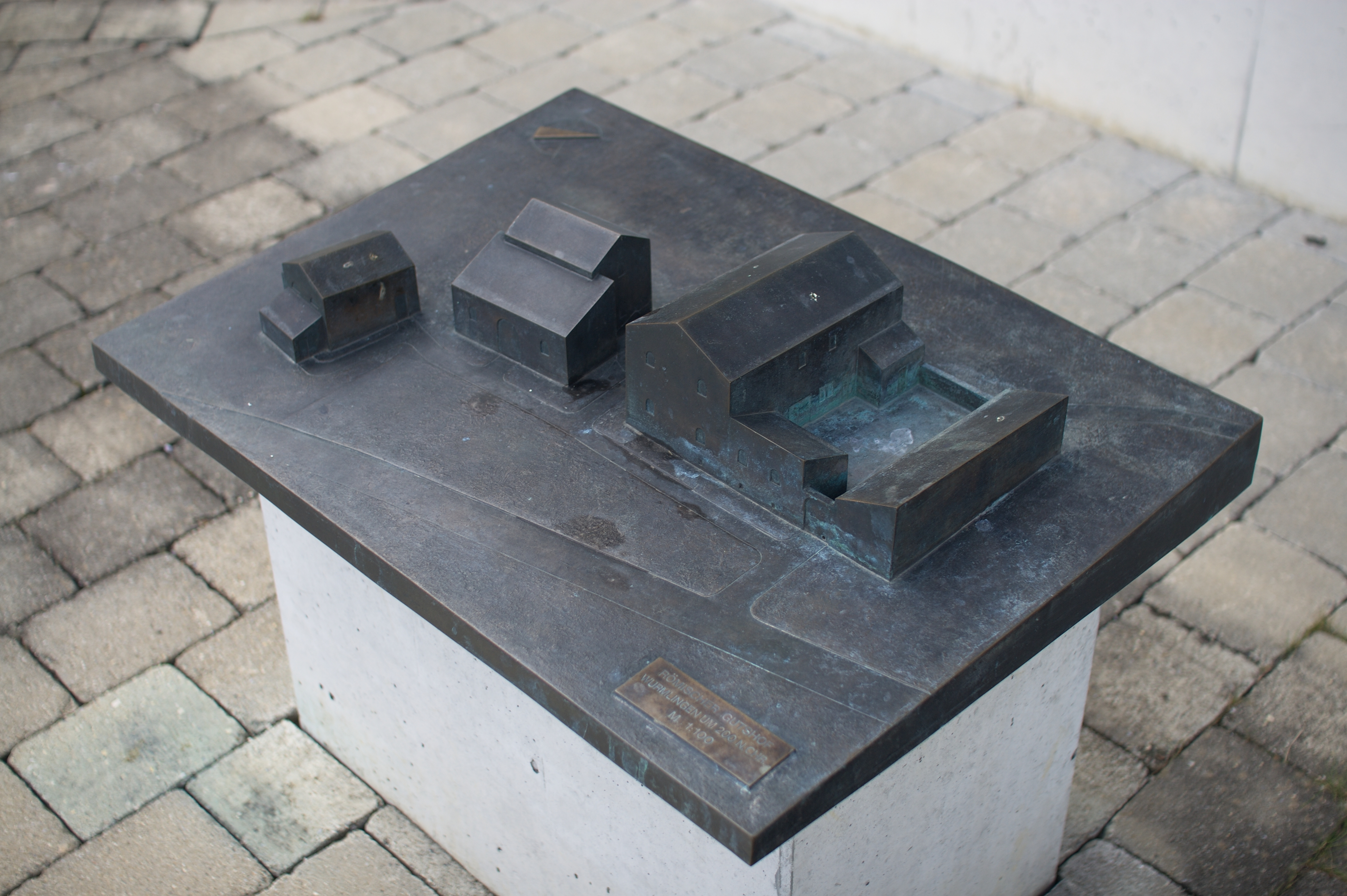 Reconstruction of the ancient Roman Bath in Wurmlingen